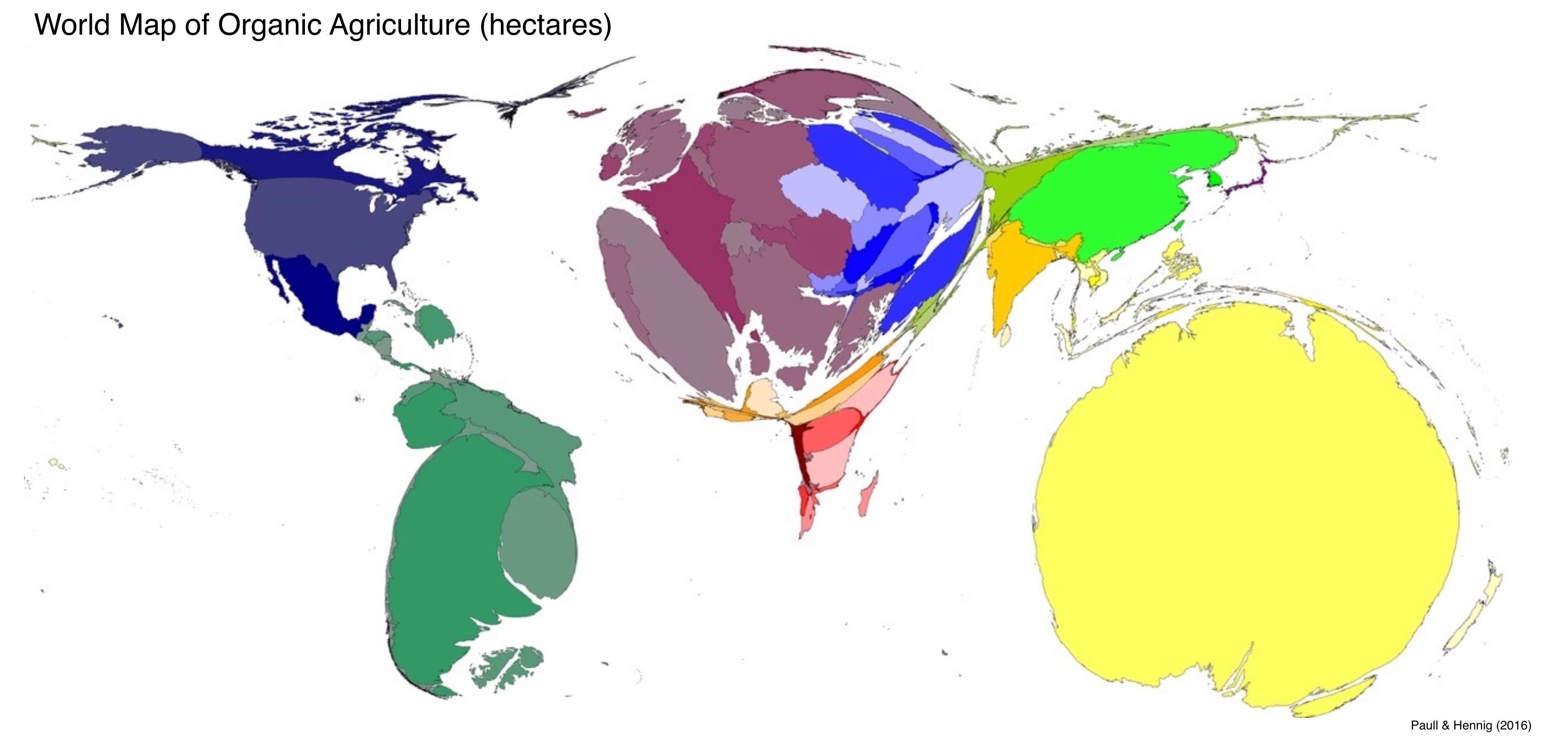 World Map of Organic Agriculture (Paull & Hennig, 2016)